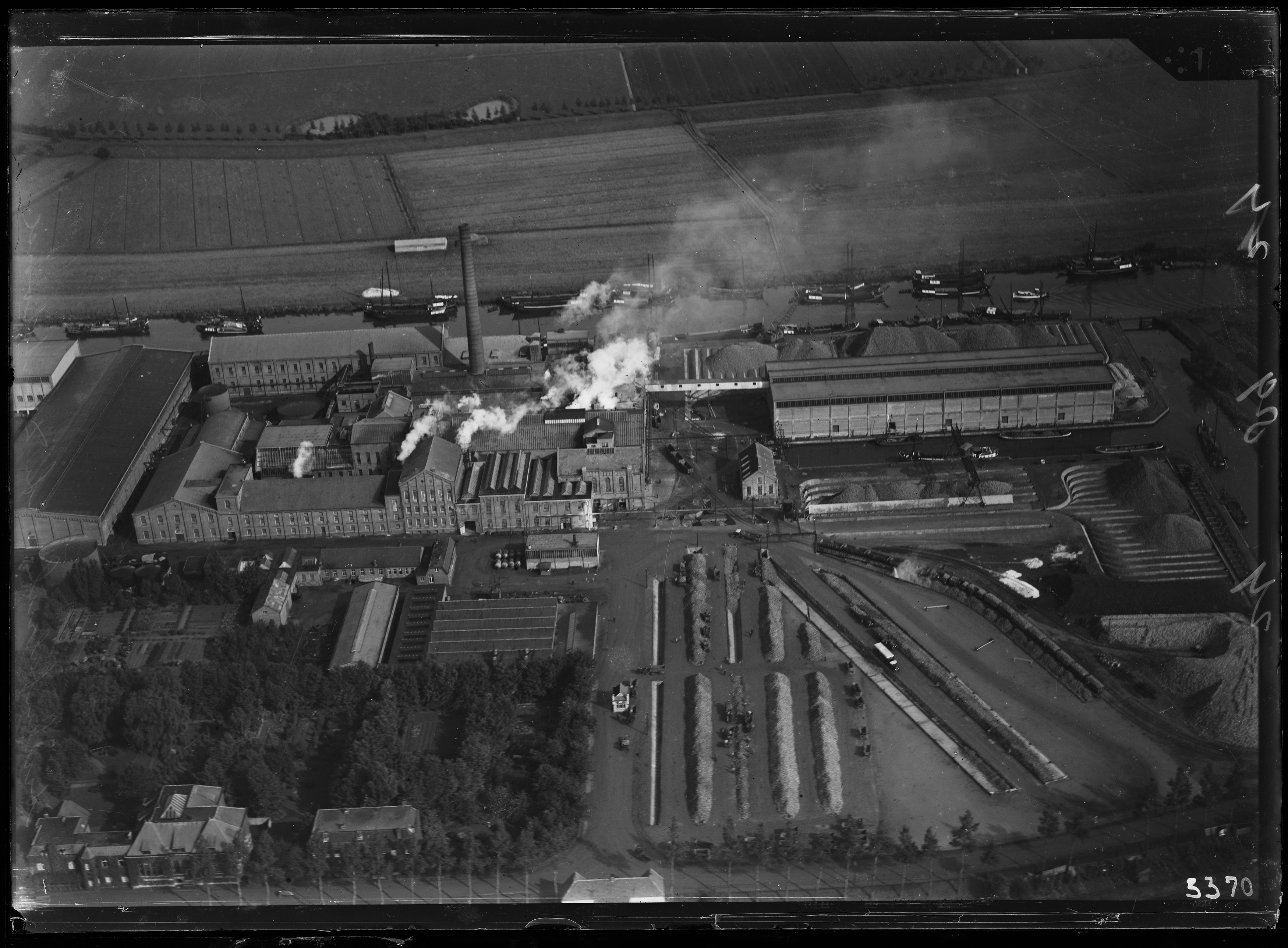 Aerial photograph of Dinteloord, The Netherlands